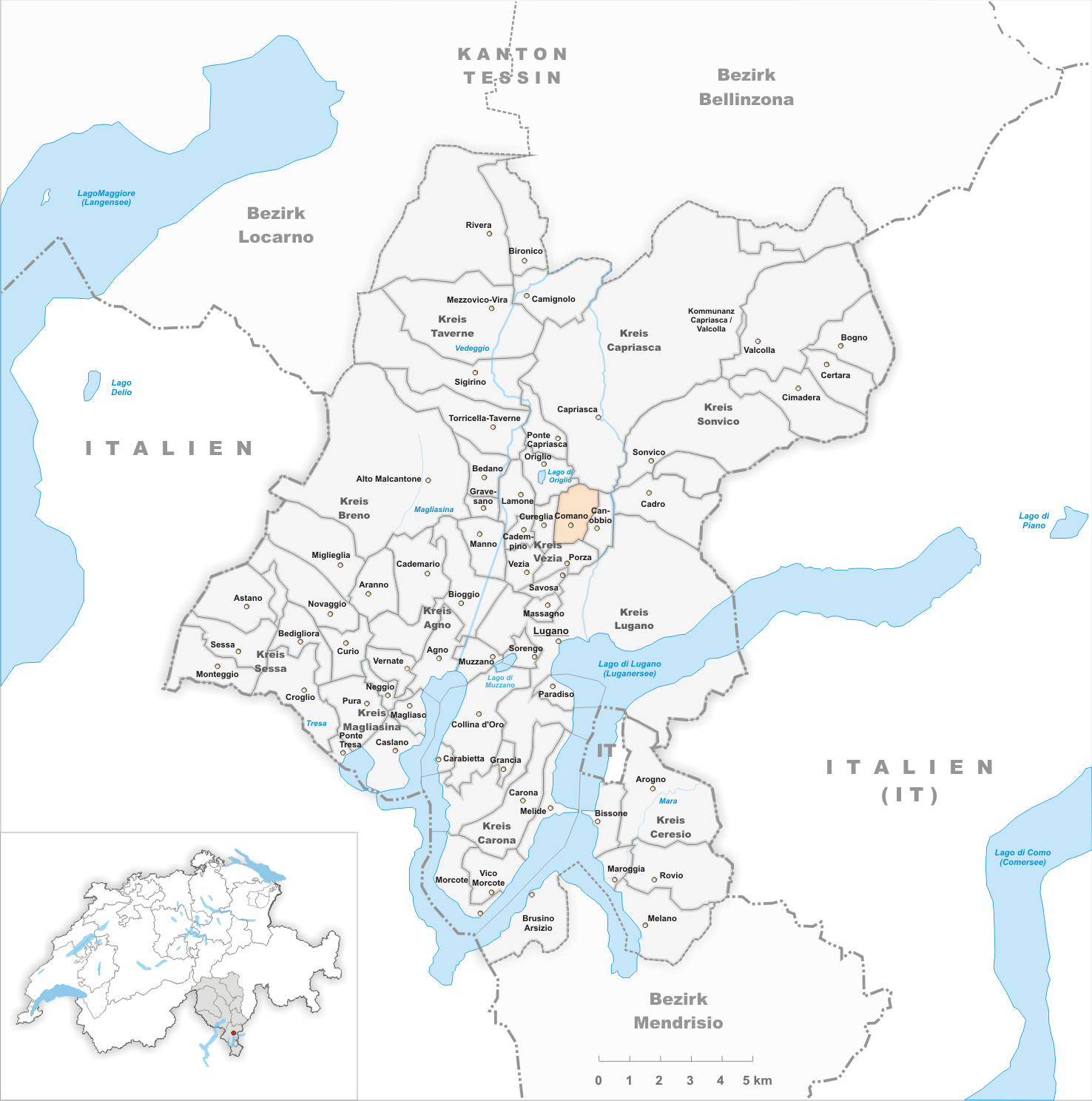 Municipality Comano